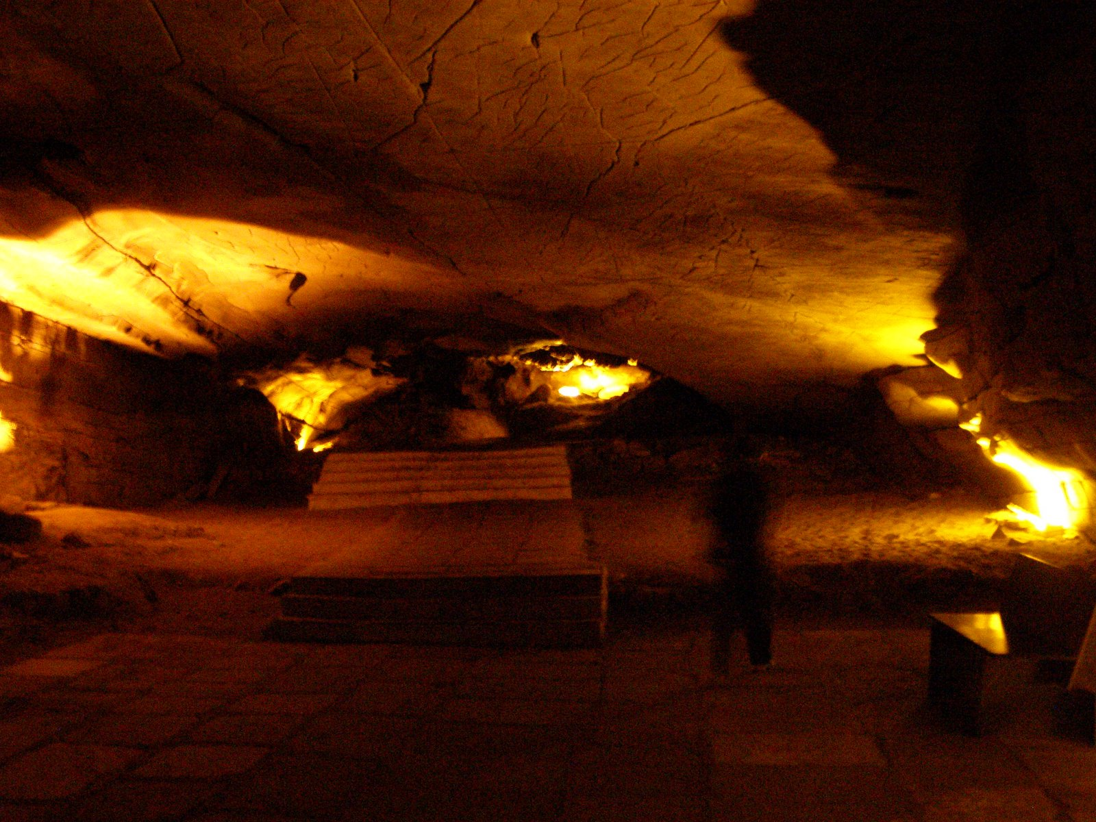 Section known as Meditation Hall inside Belum Caves. Buddhist relics were found here.